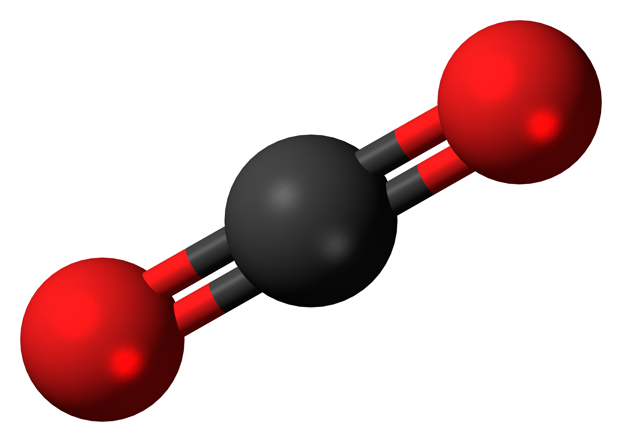 Ball-and-stick model of the carbon dioxide molecule, one of the most important chemical compounds in the world - vital for life as we know it, but catastrophic at excess levels. Colour code: Carbon, C: black Oxygen, O: red